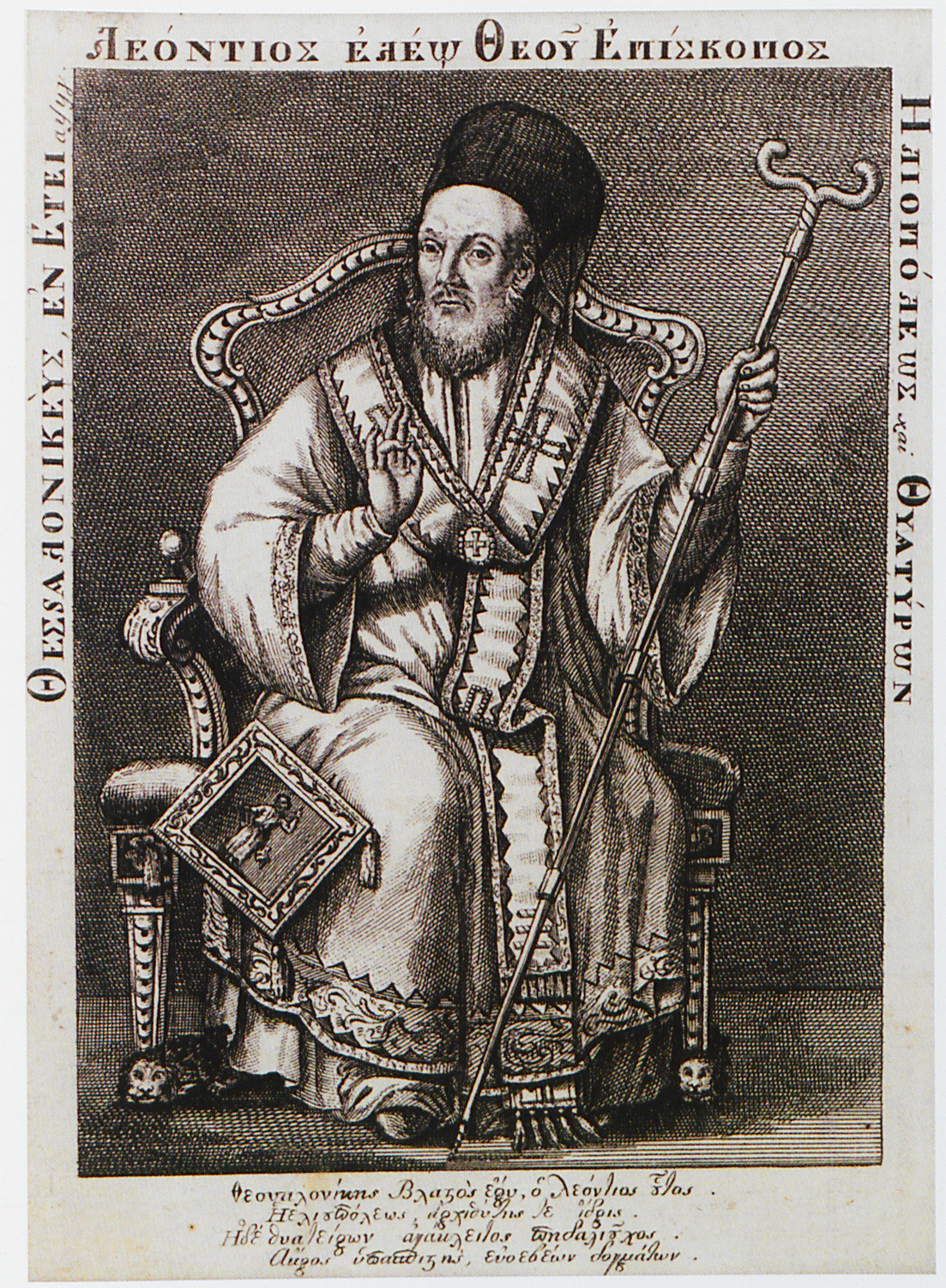 Engraved portrait of Leontios, bishop of Heliopolis and Thyateira from 1773.